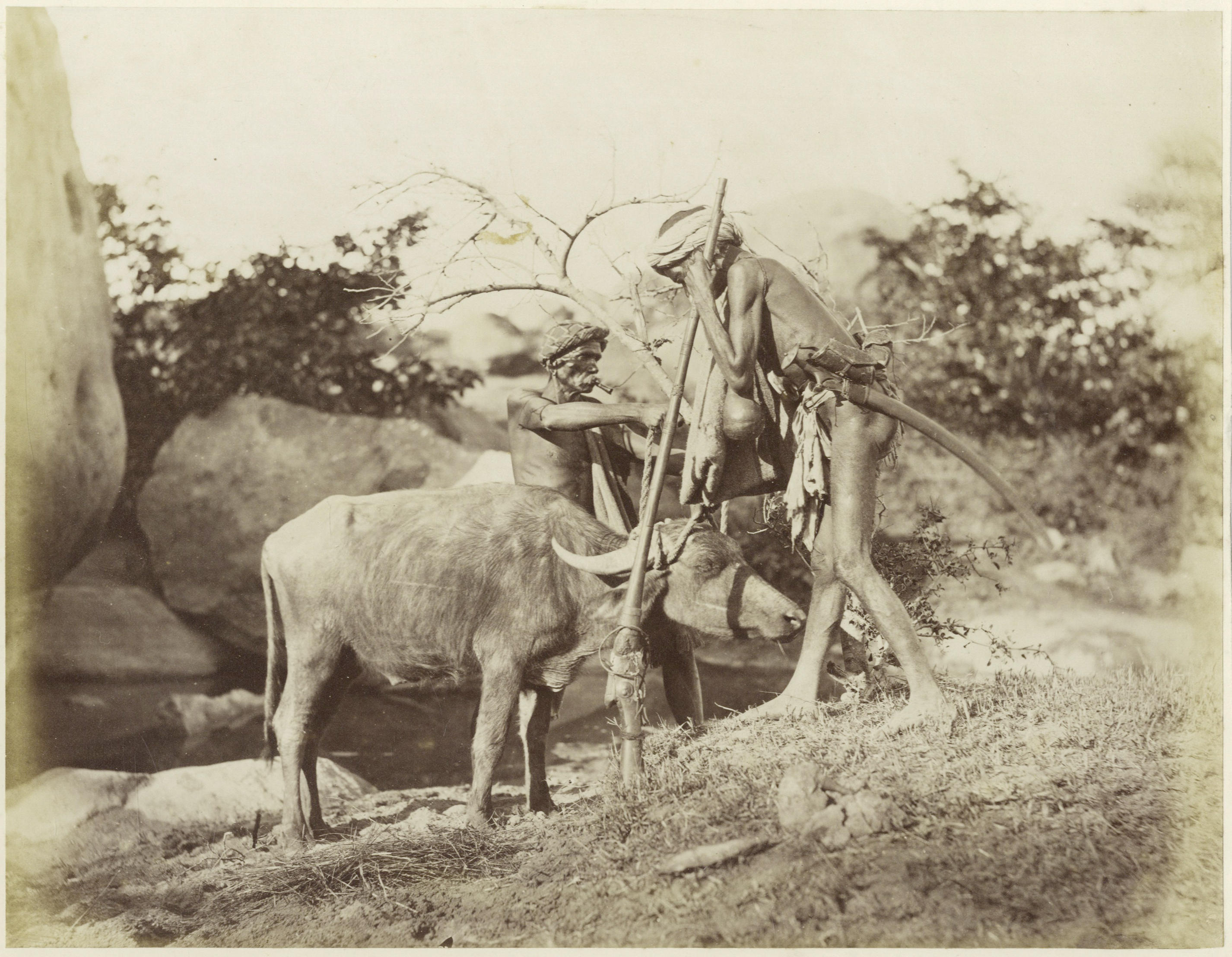 A view of a water buffalo being tethered as bait for a tiger